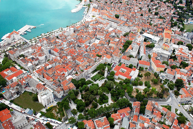 Split city center from the airplane.